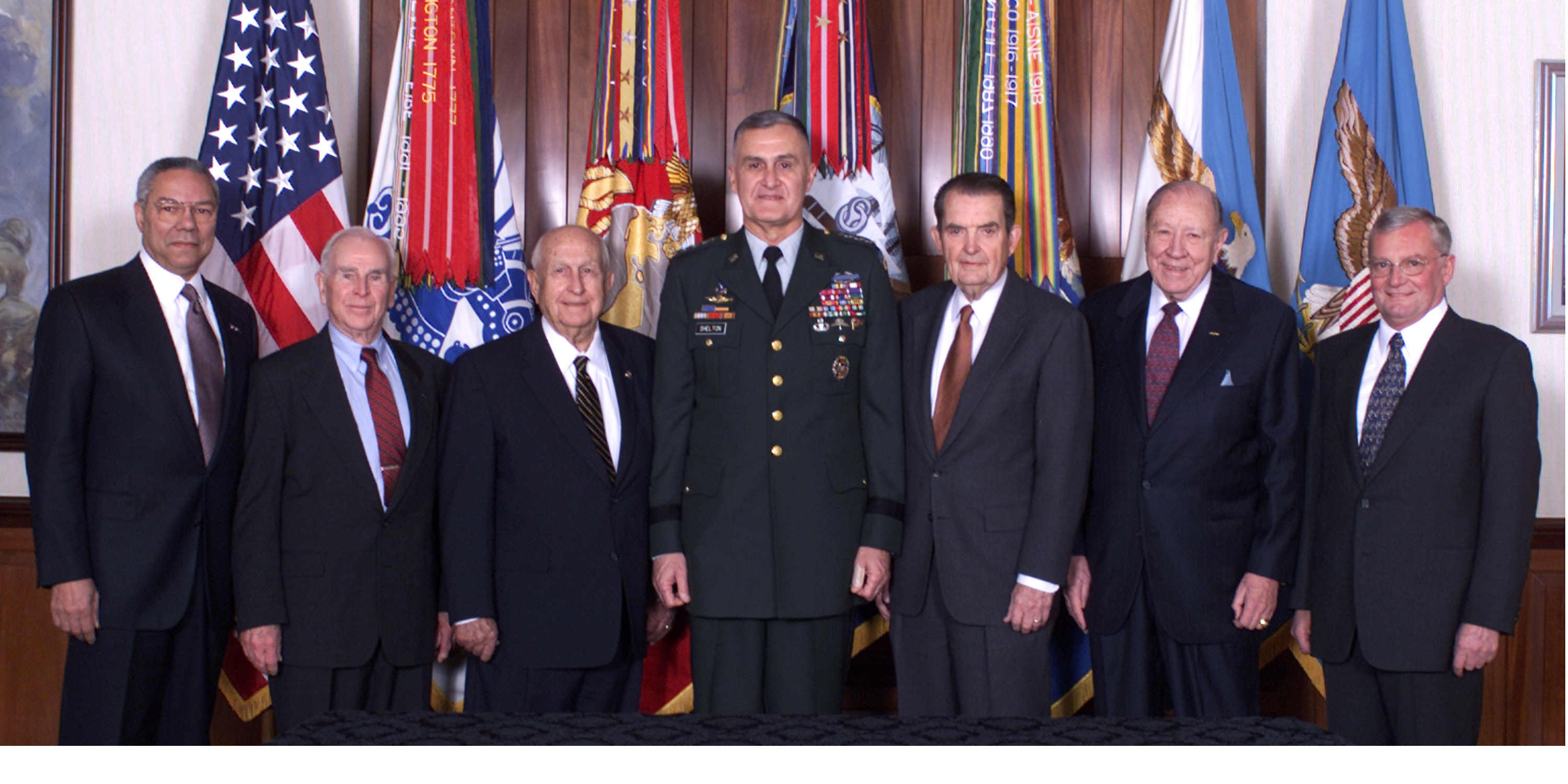 Gen. Henry H. Shelton, Chairman of the Joint Chiefs of Staff, hosted a one-day conference today in the Pentagon for former chairmen of the Joint Chiefs of Staff. The meeting was held to update the former chairmen, who collectively have more than 200 years of distinguished military experience, and to seek their perspective on a number of issues. Standing from left to right are: Gen. Colin L. Powell, USA (Ret); Gen. John W. Vessey, USA (Ret); Adm. Thomas H. Moorer, USN (Ret); Gen. Shelton, USA; Gen. David C. Jones, USAF (Ret); Adm. William J. Crowe, Jr., USN (Ret); and Gen. John M. Shalikashvili, USA (Ret).